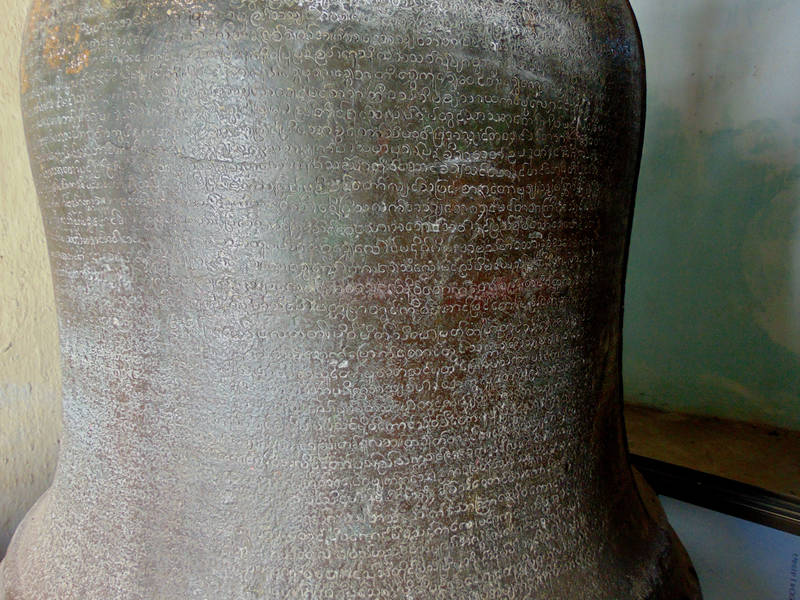 Photo of scripts on Shwezigon Bell